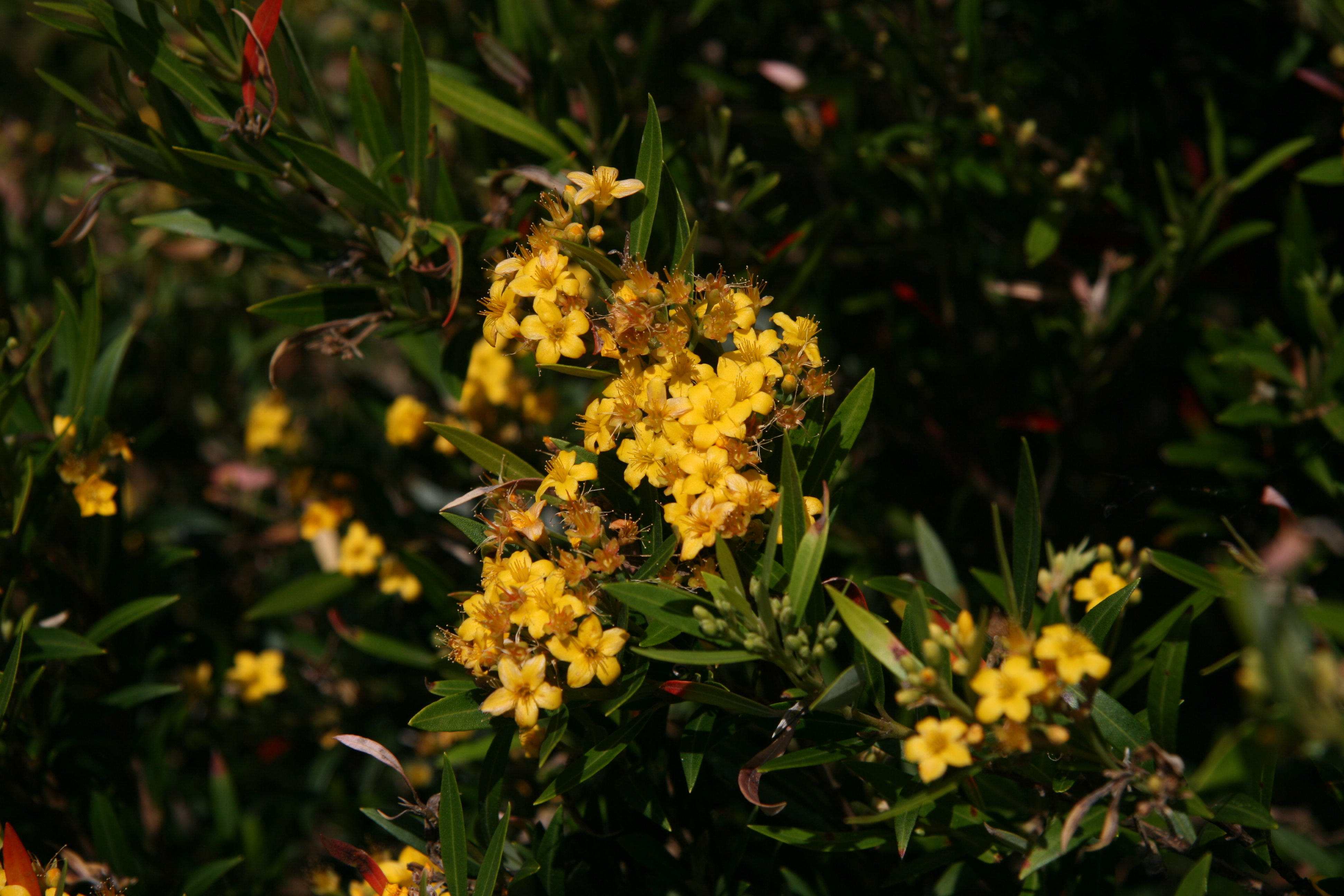 Tristania neriifolia in flower, cultivated at Maleny in SEQ